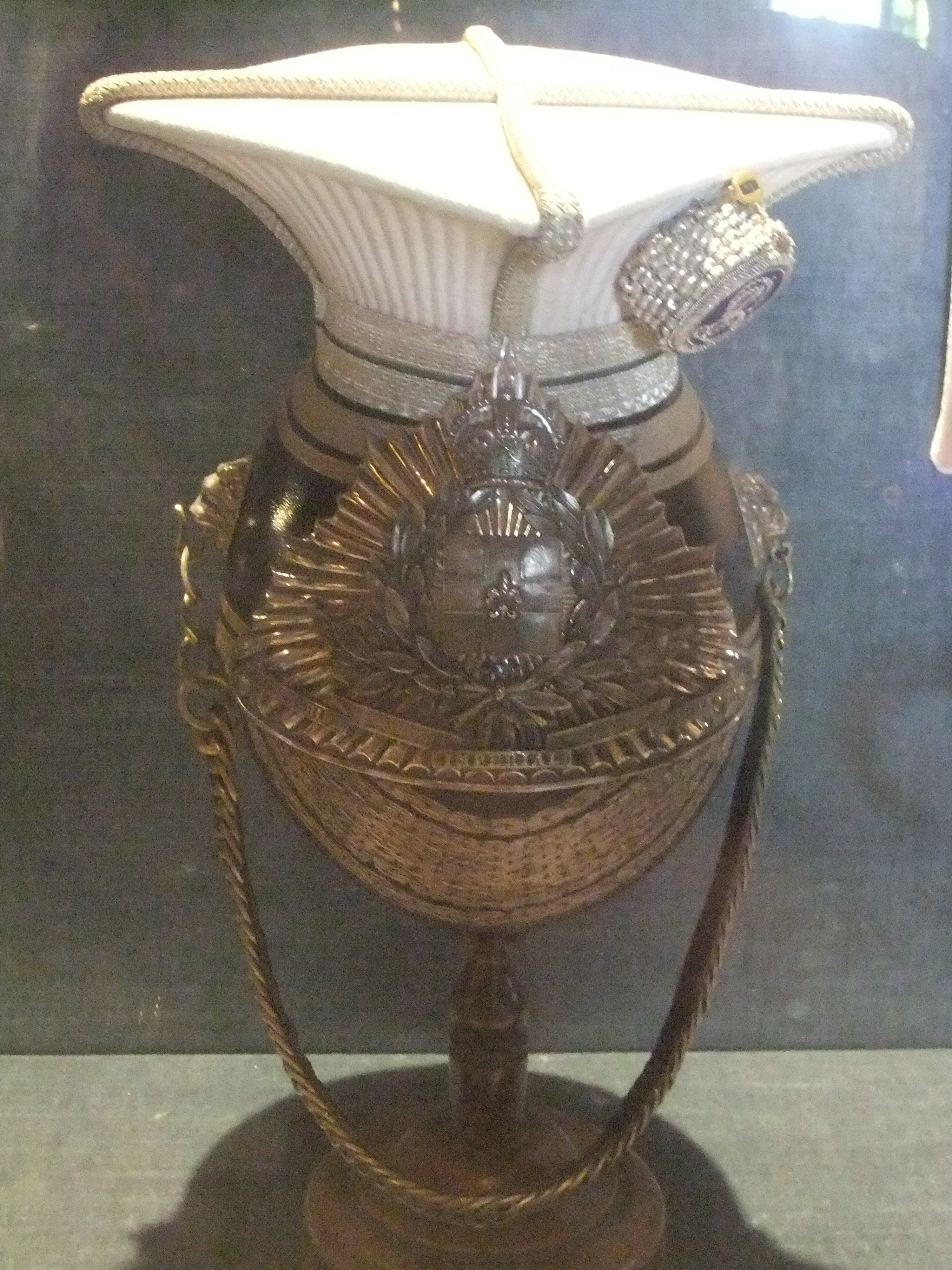 Military helmet. Photo taken at The Museum of Lincolnshire Life, Lincoln, England.